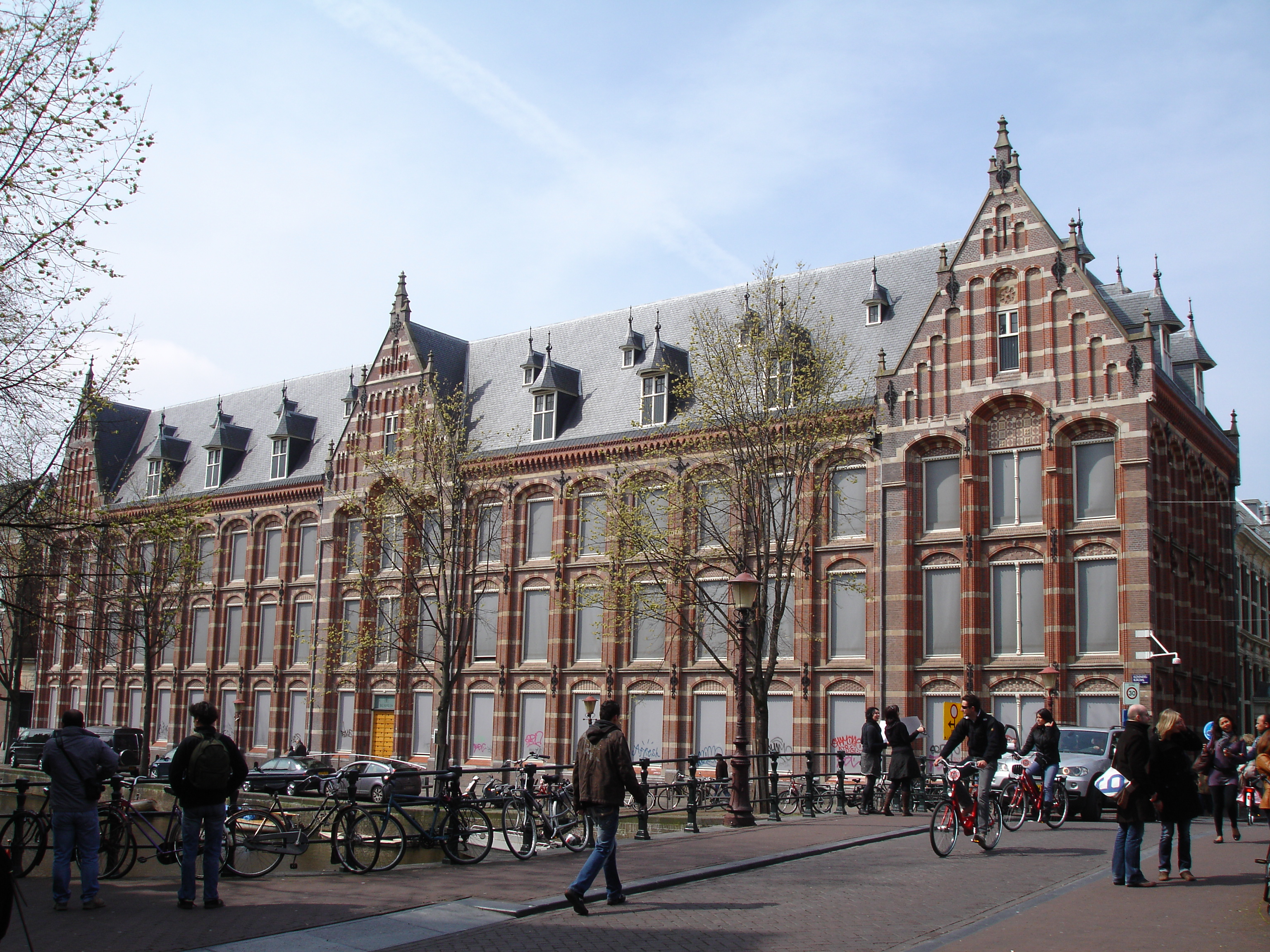 University of Amsterdam (Bushuis), Amsterdam